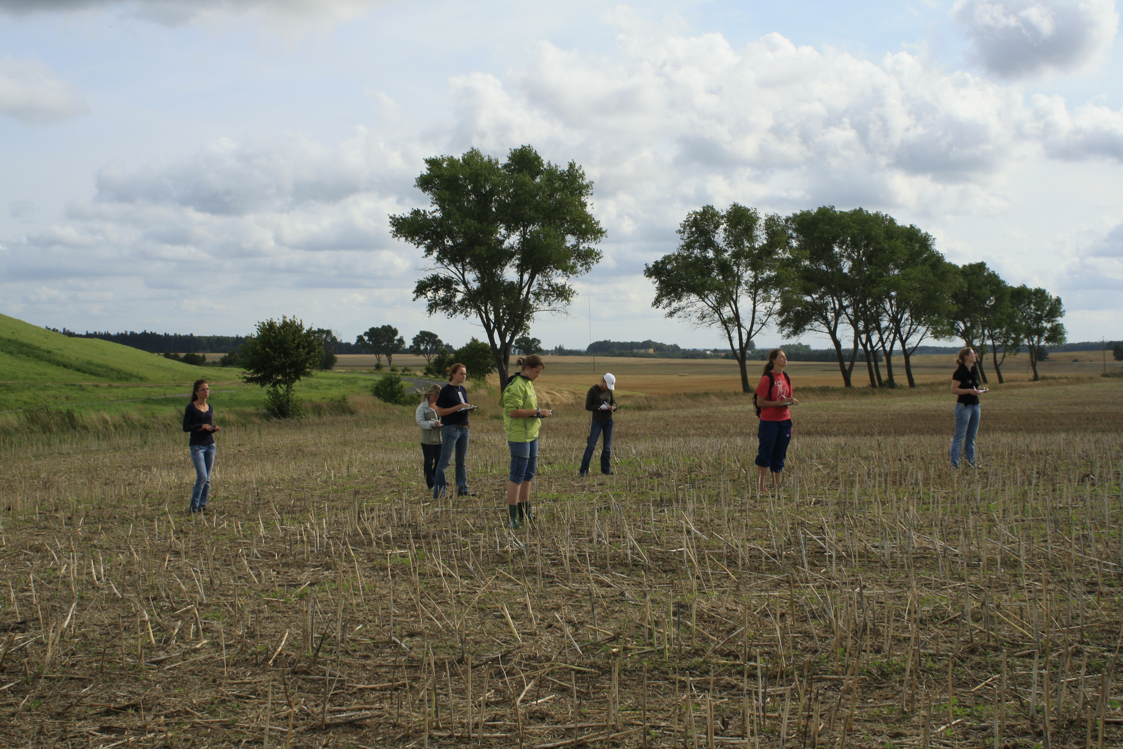 Field scaling of odour intensity (SKN ZUT Szczecin }